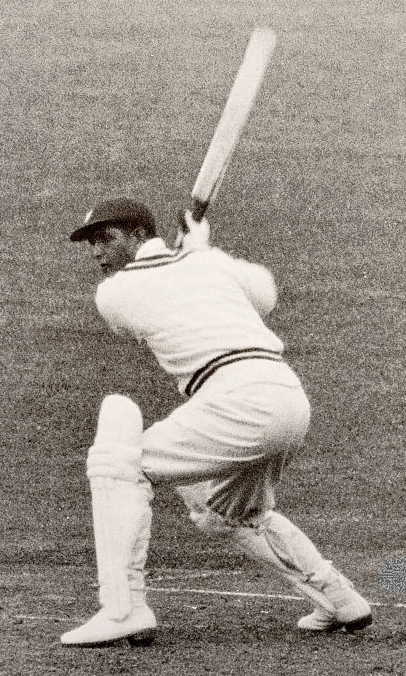 Amir Elahi of India on the attack during the first innings of the touring match against Middlesex at Lord's cricket ground, 23rd May 1936. The Middlesex wicketkeeper is Fred Price, and Patsy Hendren is fielding at first slip. Middlesex won by four wickets. Amir Elahi of India on the attack during the first innings of the touring match against Middlesex at Lord's cricket ground, 23rd May 1936. The Middlesex wicketkeeper is Fred Price, and Patsy Hendren is fielding at first slip.